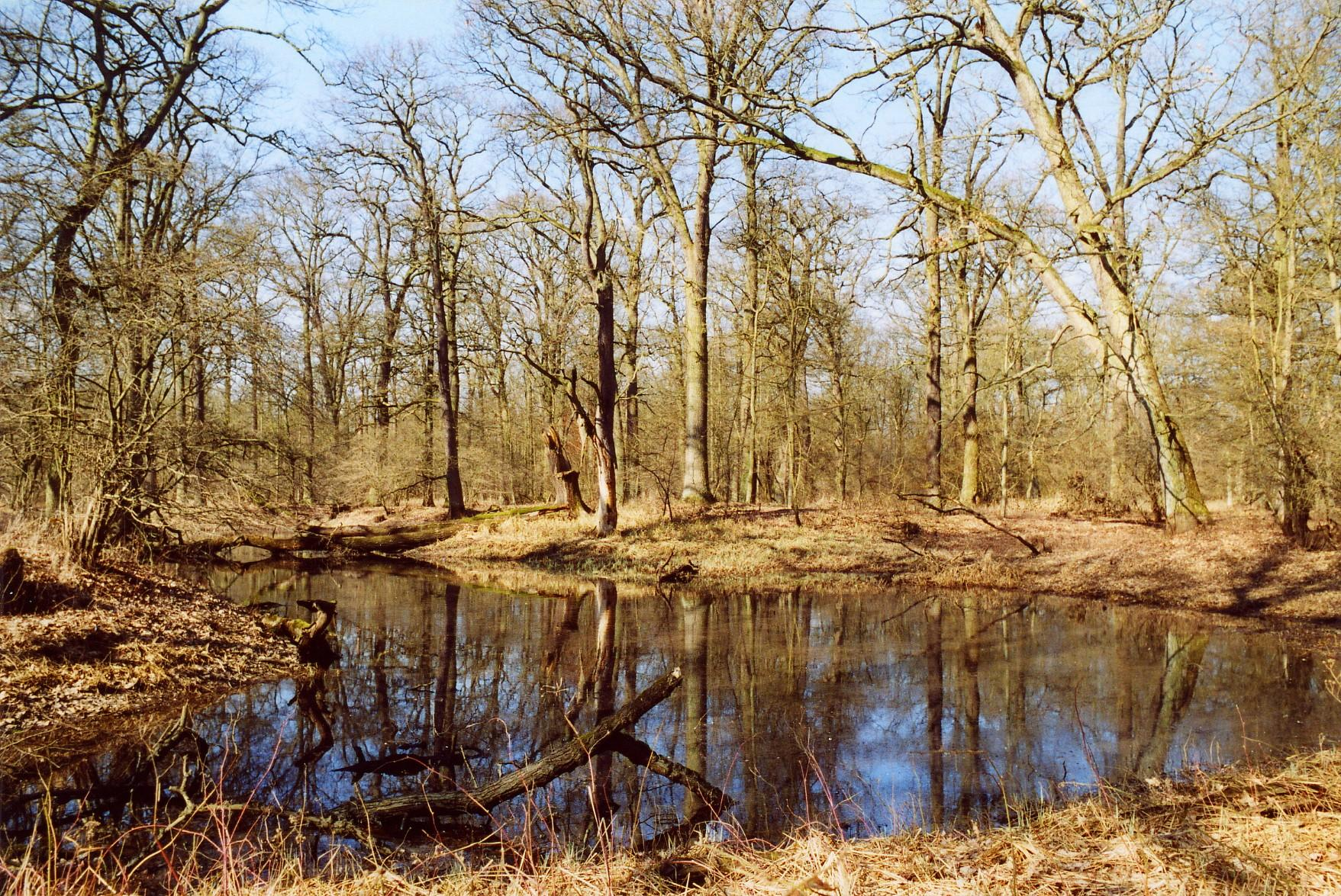 Look into the "Elbholz" forest in the district Lüchow-Dannenberg, northern Germany. It is a natural hardwood floodplain forest at the Elbe river, which is seasonal regularly under water.